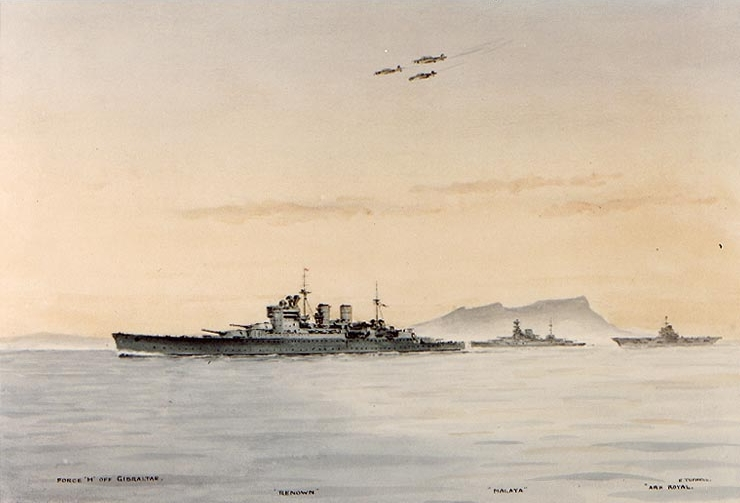 "Force 'H' off Gibraltar": The Royal Navy Force 'H' off Gibraltar, watercolor by Edward Tufnell, RN (retired), depicting the British battlecruiser HMS Renown, the battleship HMS Malaya and the aircraft carrier HMS Ark Royal operating together in 1941.